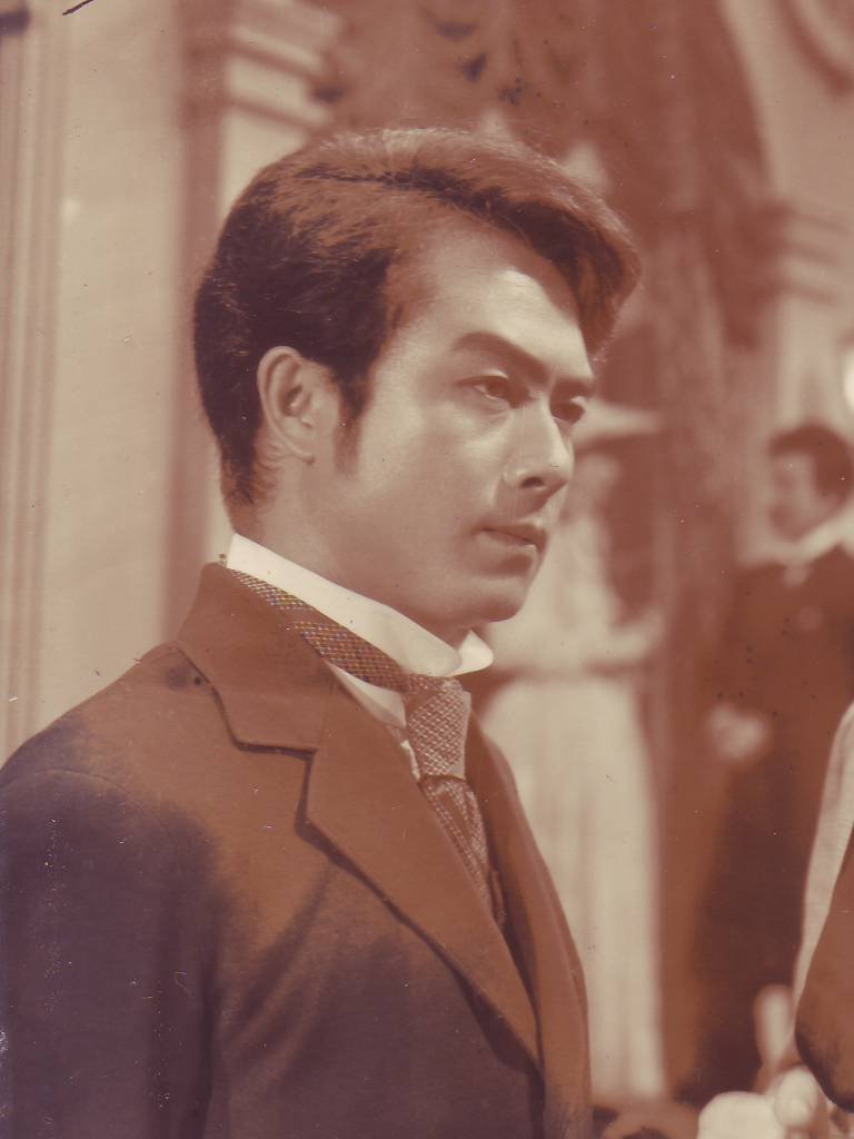 Susumu Namishima (Japanese Actor). Studio Still of the 1955 Japanese film "Sugata Sanshirō" (Toei Company).